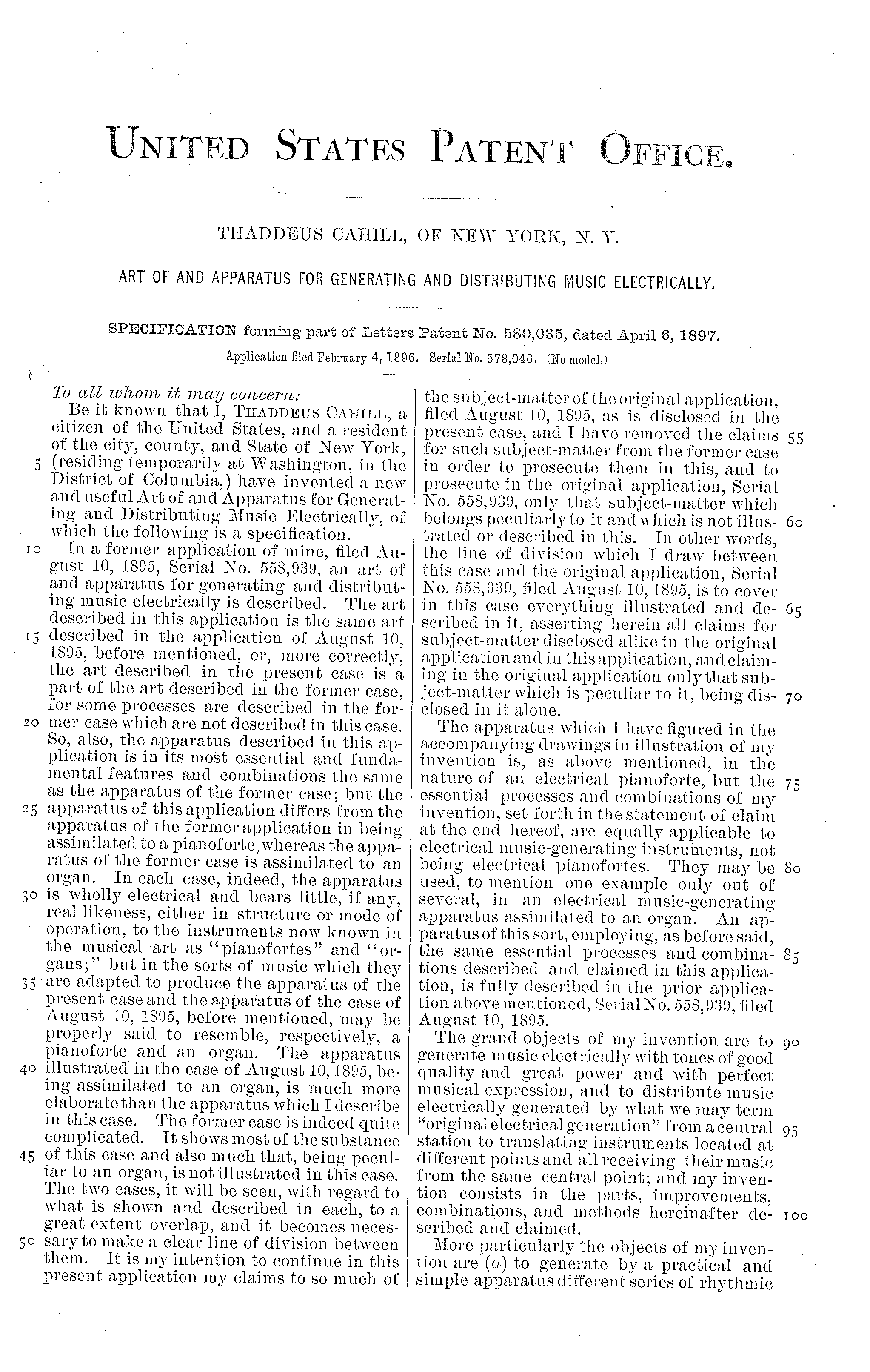 Telharmonium patent us000580035-011 page 11 (start of description) of 55 by Thaddeus Cahill dated April 6, 1897, applied February 4, 1896 Source: [1]